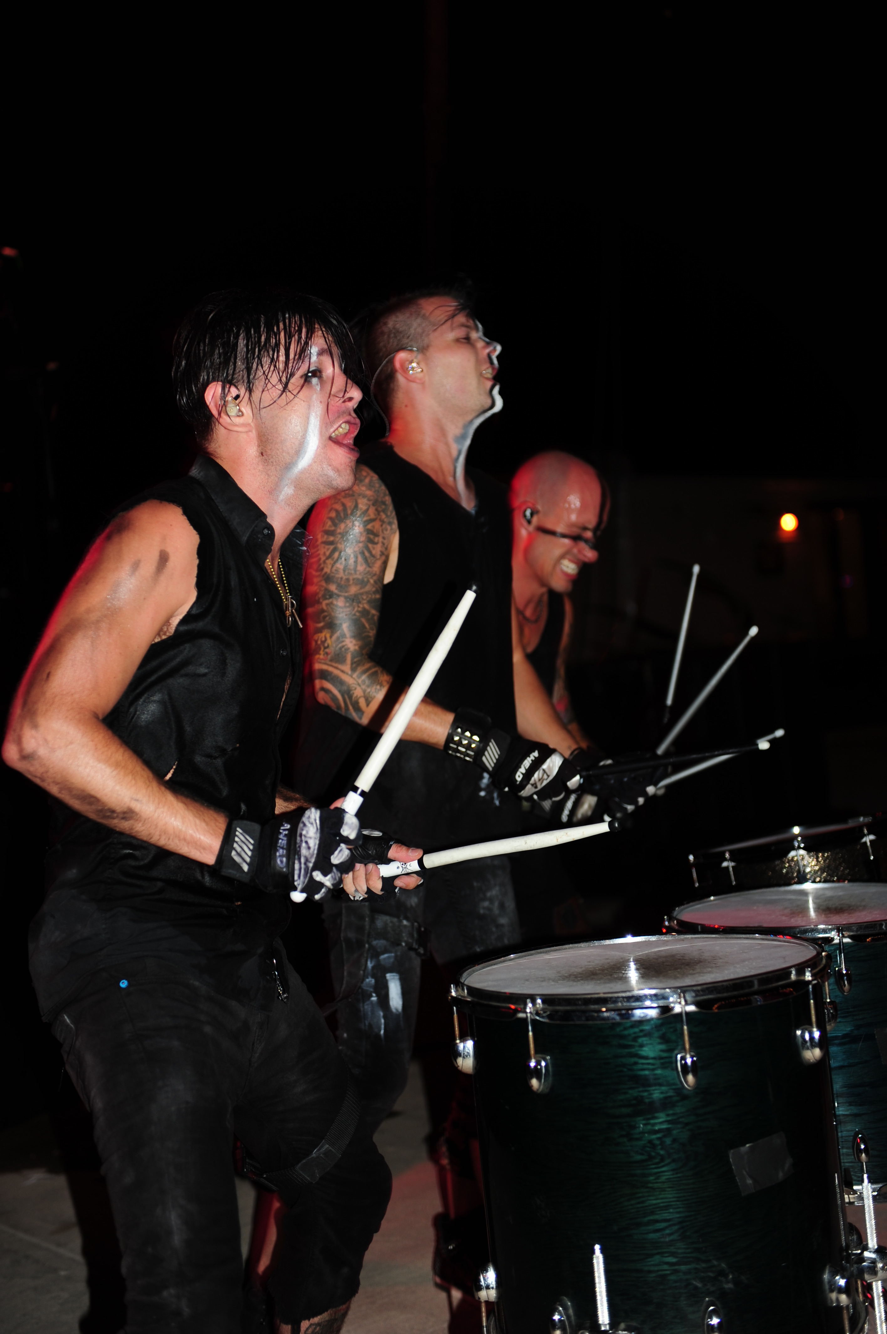 The Street Drum Corps performed in front of a crowd of service members and Naval Station Guantanamo Bay residents at the Tiki Bar on Friday night. For their unique industrial sound, they use drums and found objects in their show, including a washer, kegs, pipes and baseball bats.